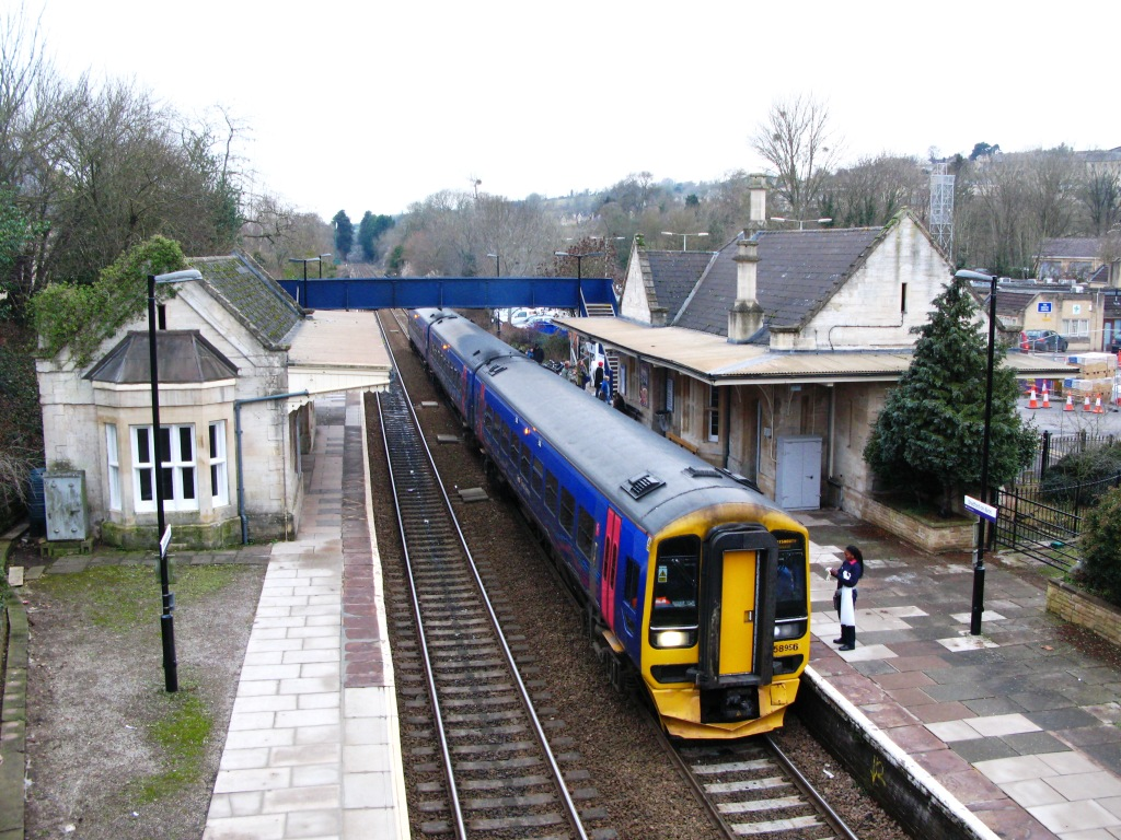 First Great Western's 158958 calls at Bradford-on-Avon station in Wiltshire, England, with a train from Cardiff to Portsmouth.